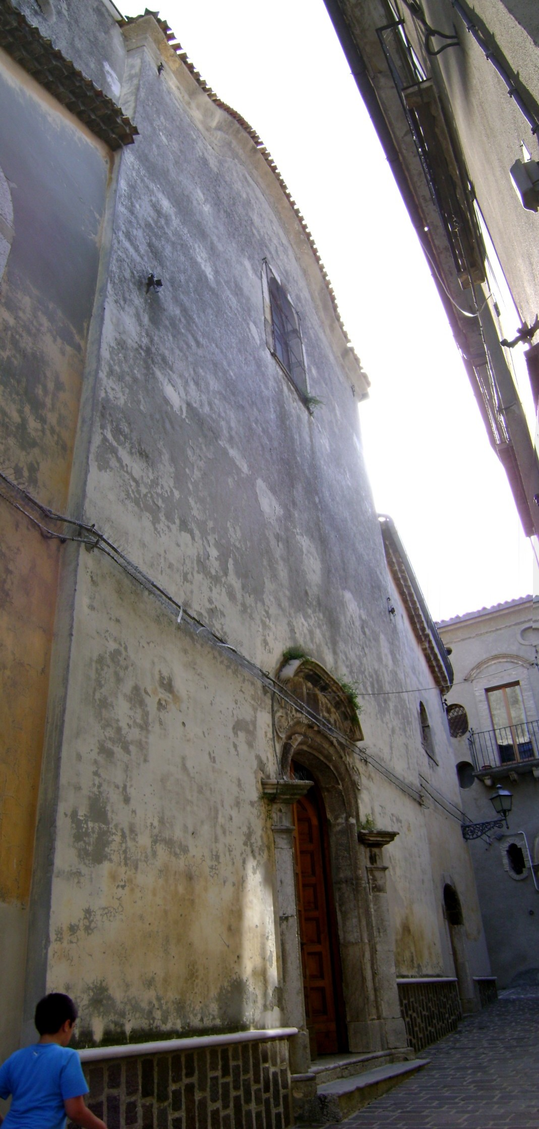 The facade of the church of Santa Vittoria, Tornareccio, province of Chieti, Abruzzo